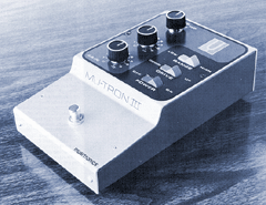 by Art Thompson Image of Musitronics Mutron III